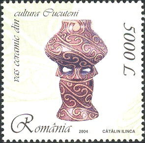 Stamps of Romania, 2004